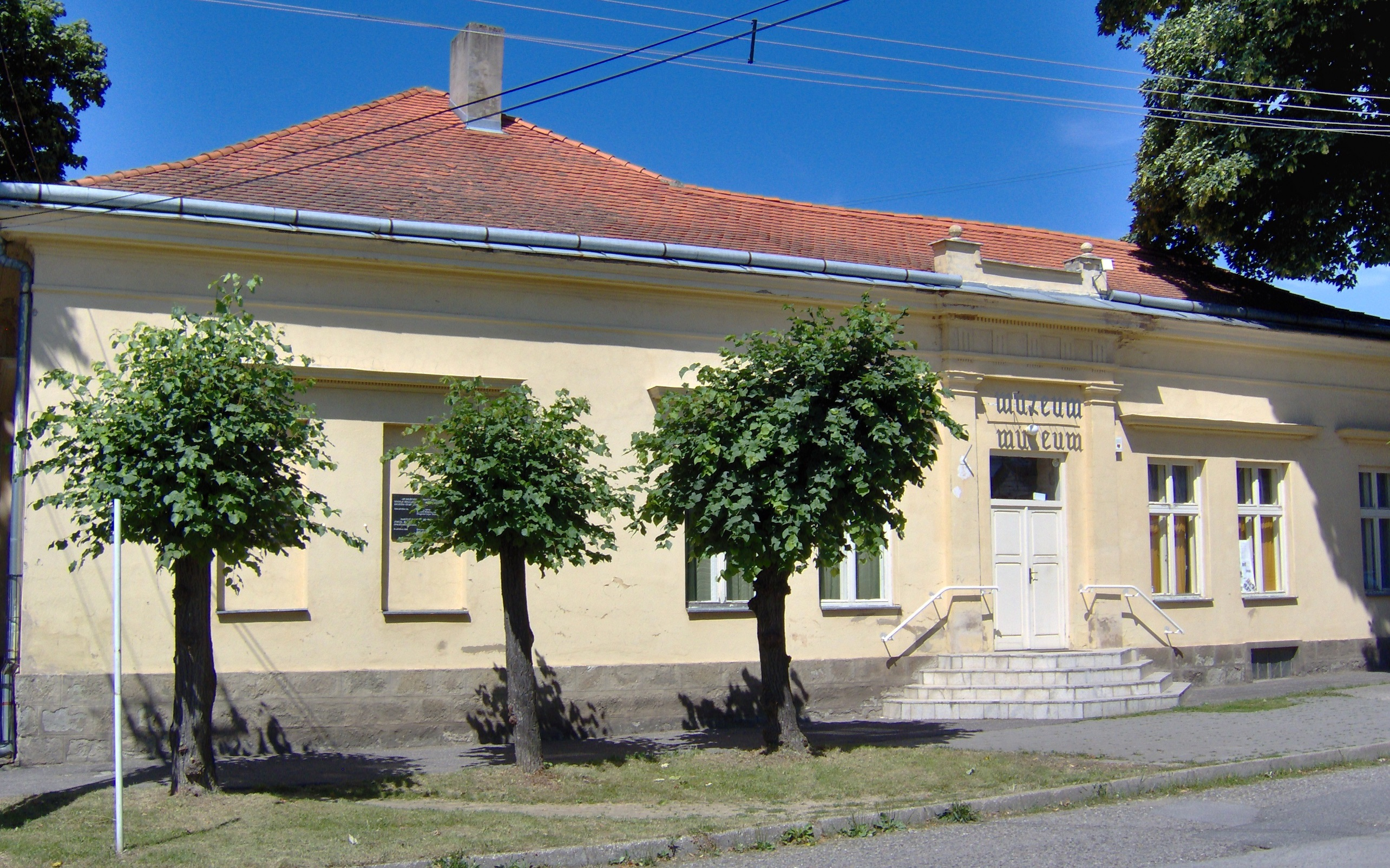 Šahy